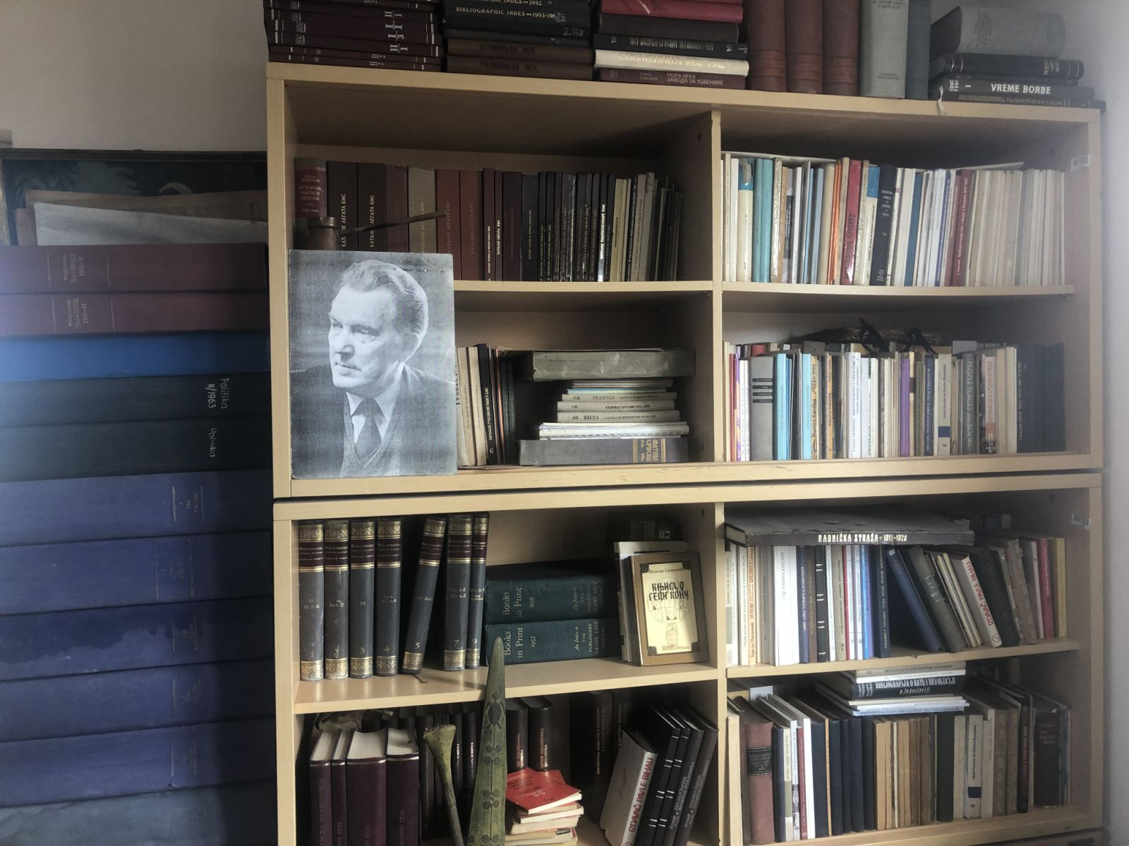 Legacy of Miodrag Živanov, Serbian bibliographer, in Society for Culture, Art and International Cooperation Adligat in Belgrade, Serbia. Српски (ћирилица): Легат Миодрага Живанова, српског библиографа 20. века и начелника Библиографског одељења Народне библиотеке Србије. Налази се у Удружењу за културу, уметност и међународну сарадњу „Адлигат” у Београду.